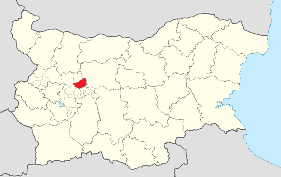 Location map of Etropole Municipality within Bulgaria and Sofia province